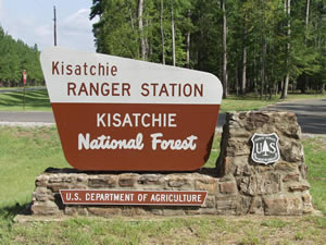 Kisatchie National Forest sign